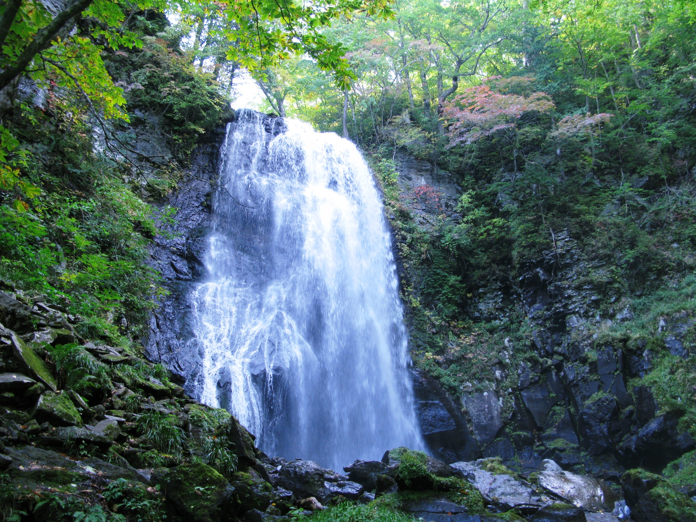 Onogawa-Fudotaki Falls, Fukushima pref., Japan